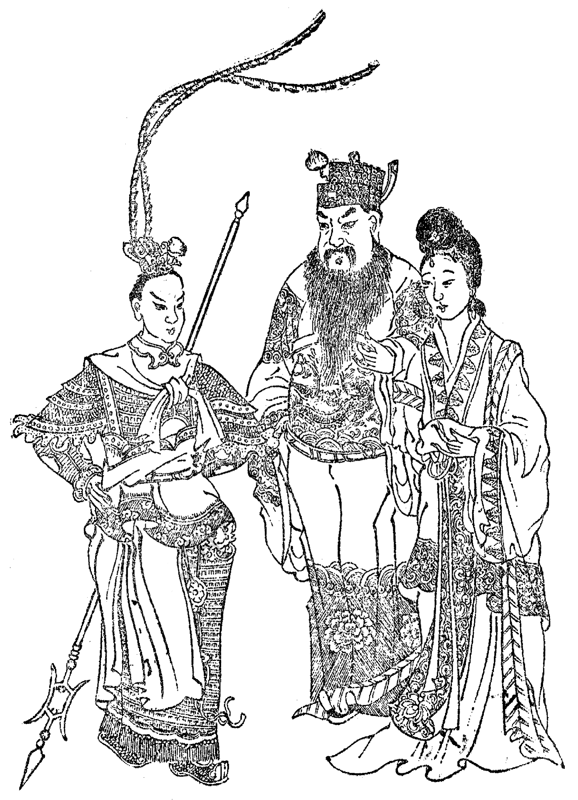 A picture drawn up during the Qing Dynasty era, depicting the characters in Romance of the Three Kingdoms (from left to right): Lǚ Bù (吕布), Dǒng Zhuó (董卓), and Diāochán (貂蝉). See further information on Thai Wikisource's Chronicle of the Romance of the Three Kingdoms by Prince Damrong Rajanubhab.